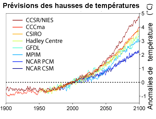 Global_Warming_Predictions_fr.